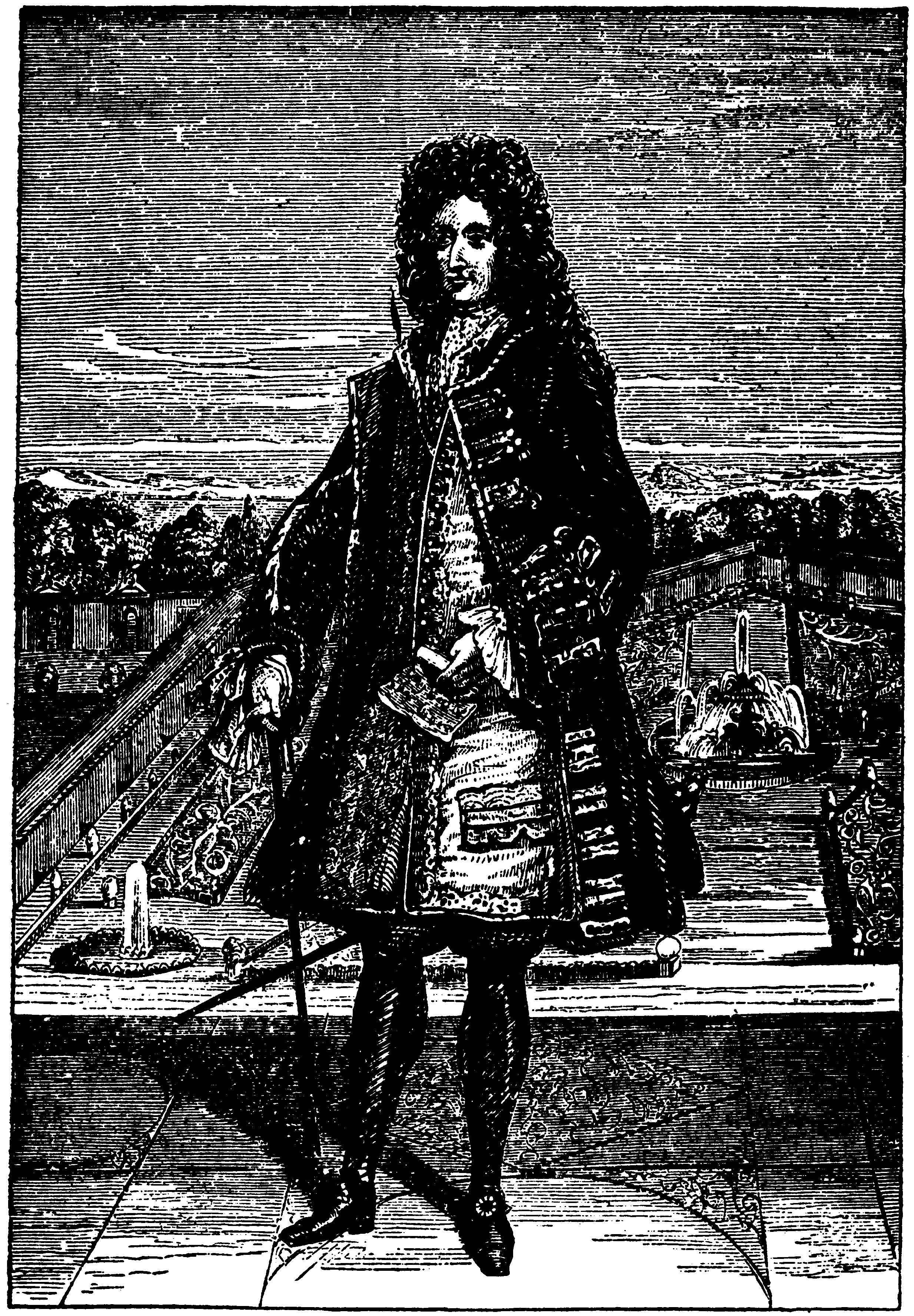 Portrait of John Law